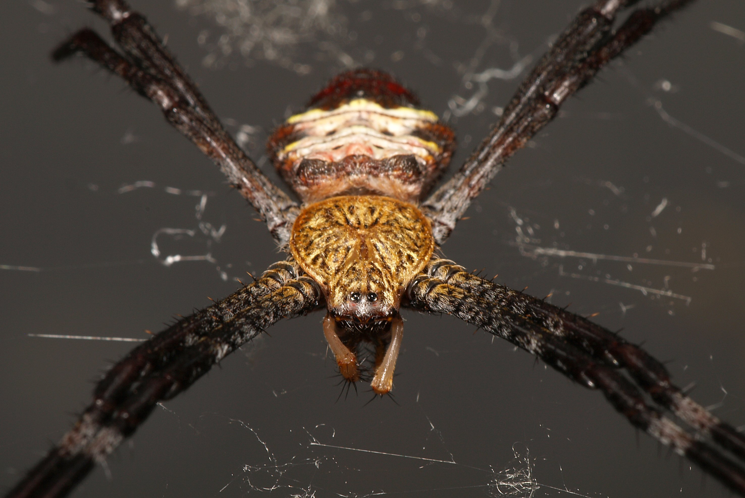 female Argiope pulchella in Cologne Zoo, Germany.Although I was told it is A. pulchella, please do check if it really is; i could not locate a picture to positively identify it.